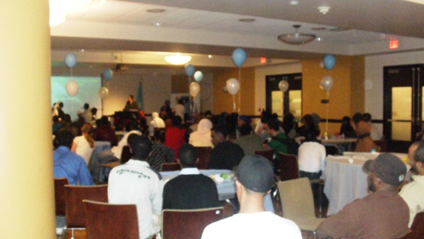 Somali Culturday event hosted by Somali Student Association.